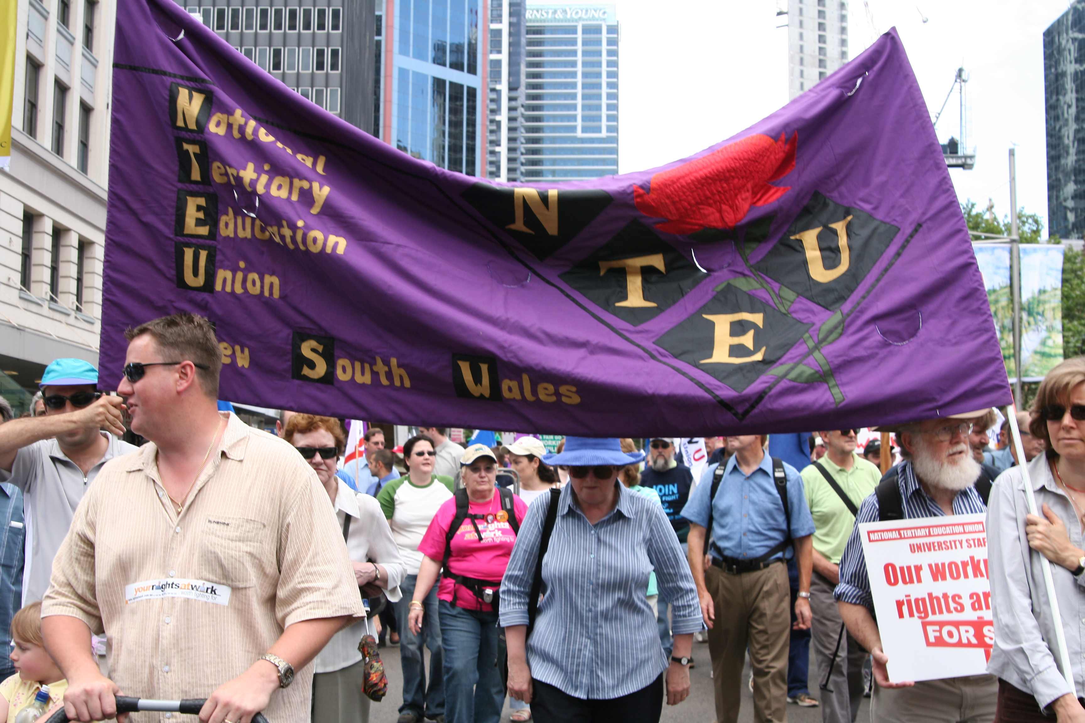 This photo is relevant to the Australia NSW Sydney IRProtest.